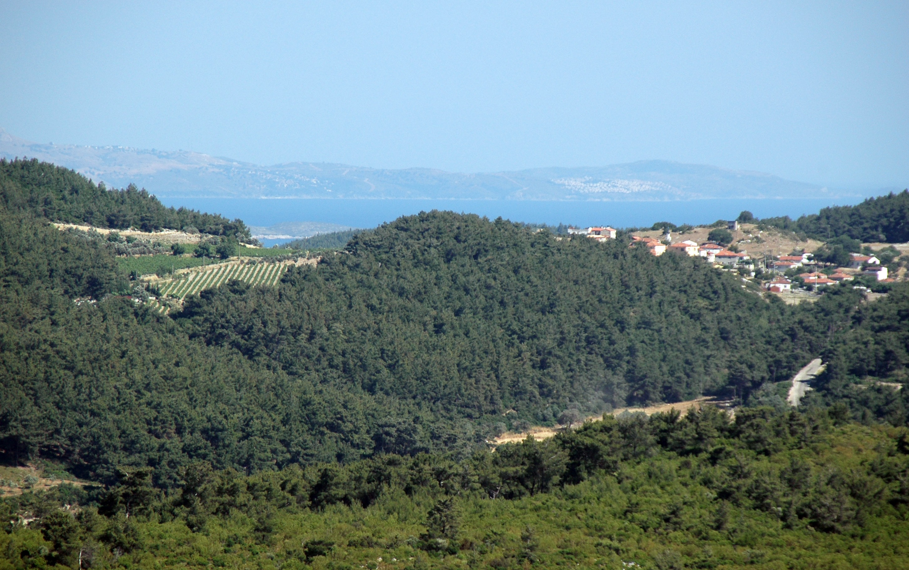 Yağcılar, Urla